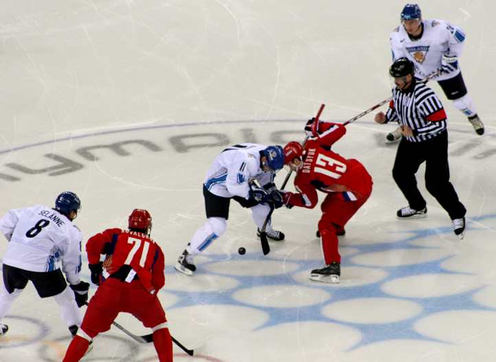 Semifinal Torino 2006: Russian players Pavel Datsyuk, Ilya Kovalchuk vs. Finnish players Teemu Selänne, Saku Koivu and Jere Lehtinen.